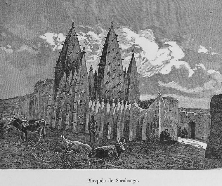 Mosque in Sorobango, of traditional baked-mud Sudano-Sahelian architecture, in northern Côte d'Ivoire.